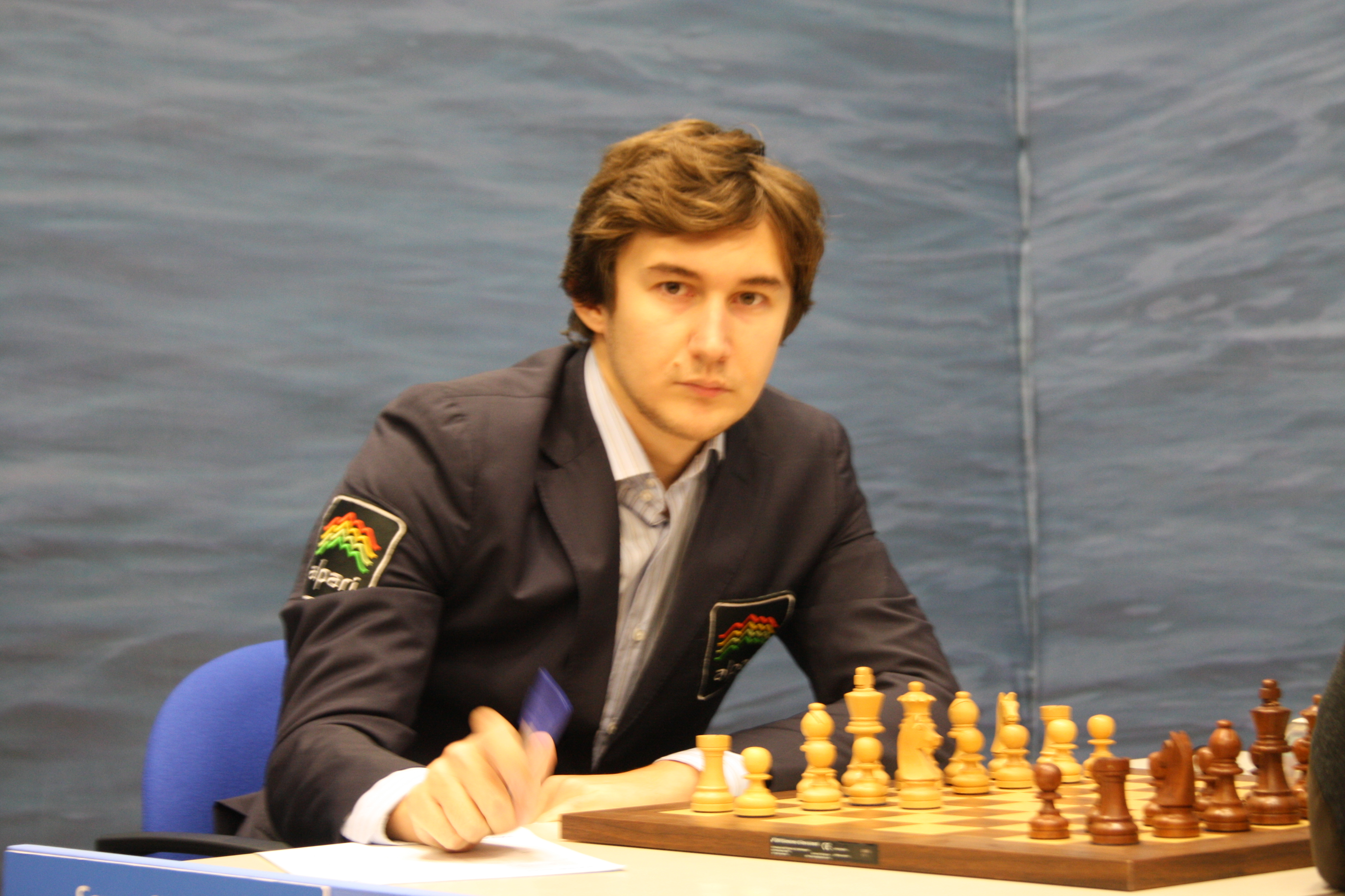 Grand Master Sergey Karyakin